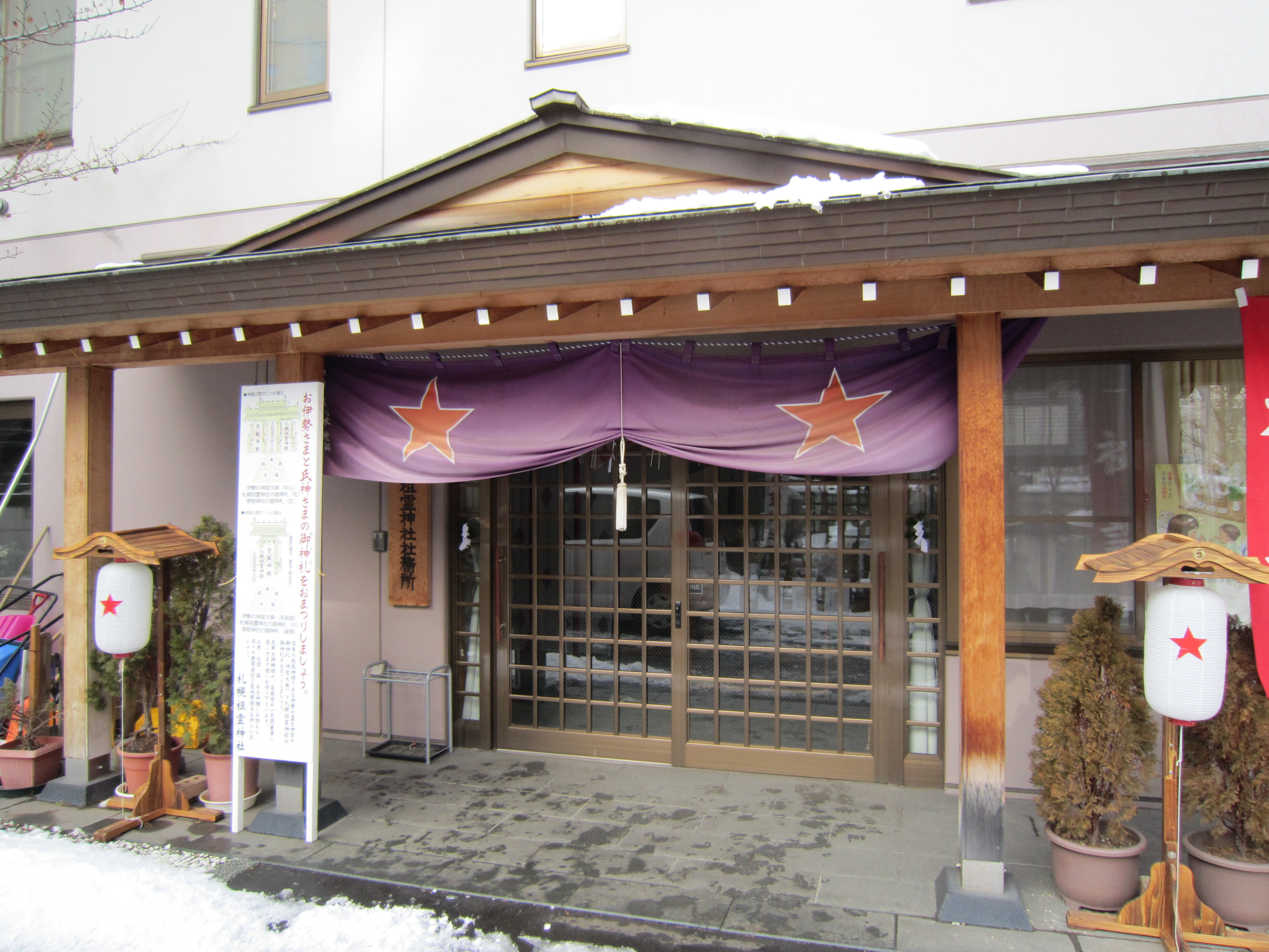 Office of Sapporo Sorei Shrine